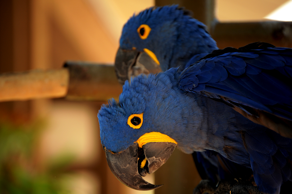 Hyacinth Macaws at Jungle Island, Miami, Florida, USA.